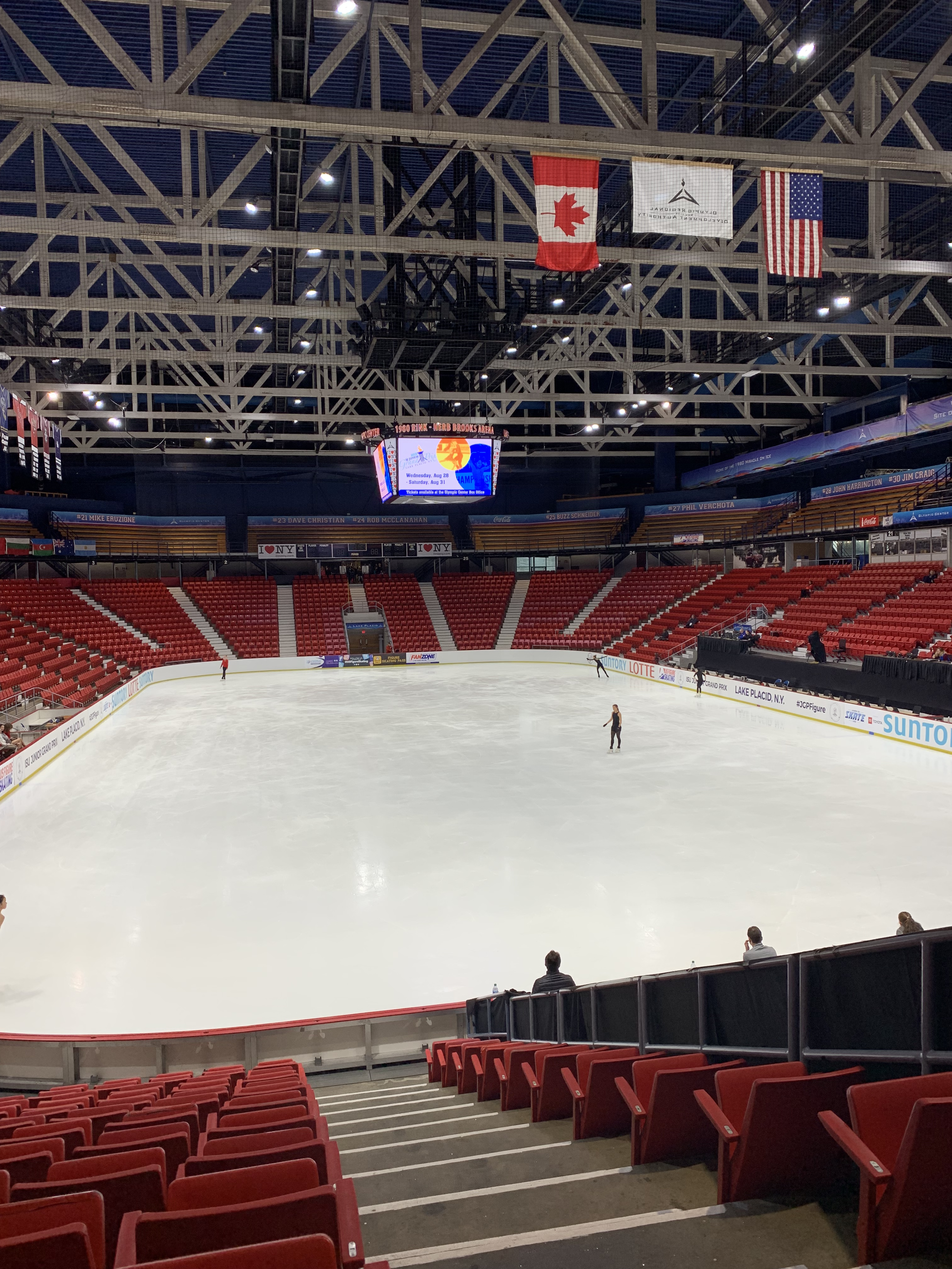 Herb Brooks Arena as of August 2019